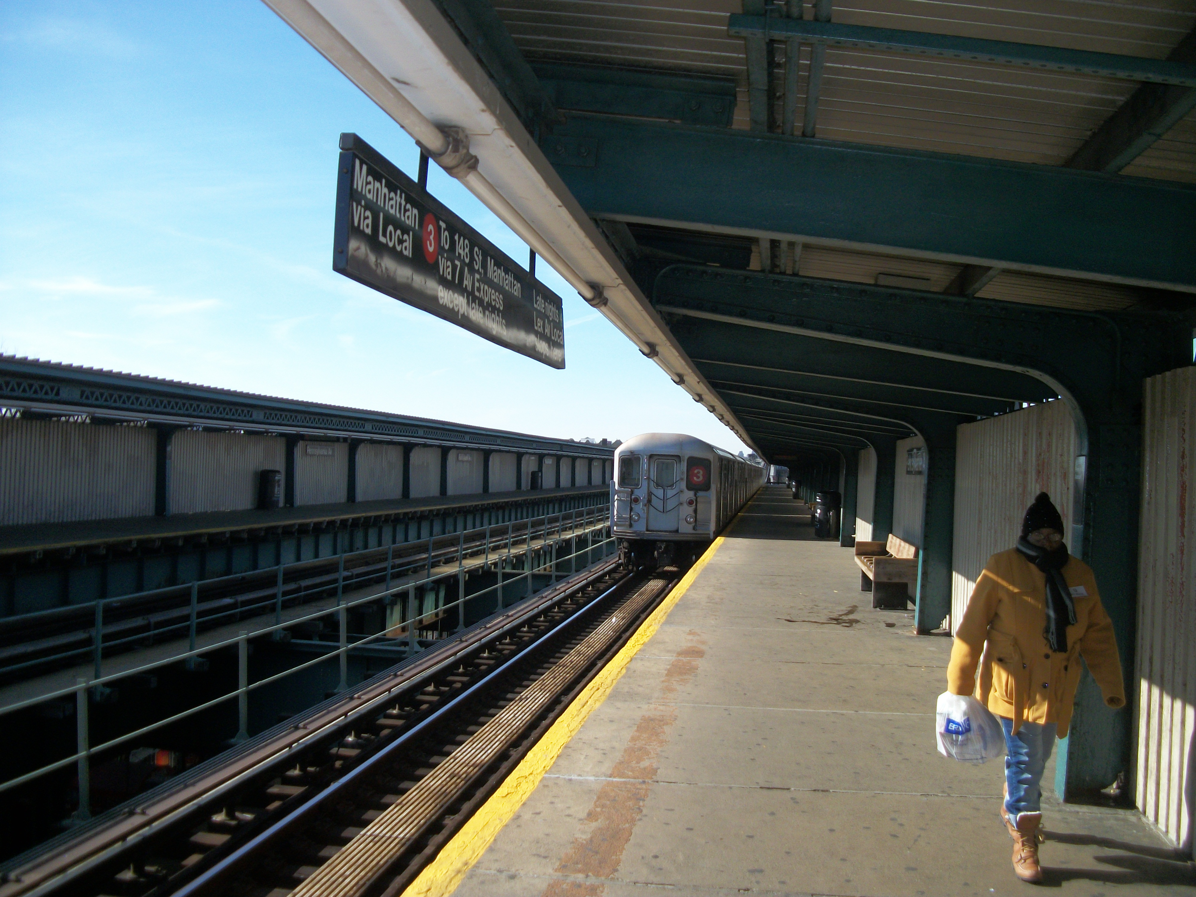 An apparent Lenox Terminal-bound 3 train leaves Pennsylvania Avenue Subway Station on the IRT New Lots Line.